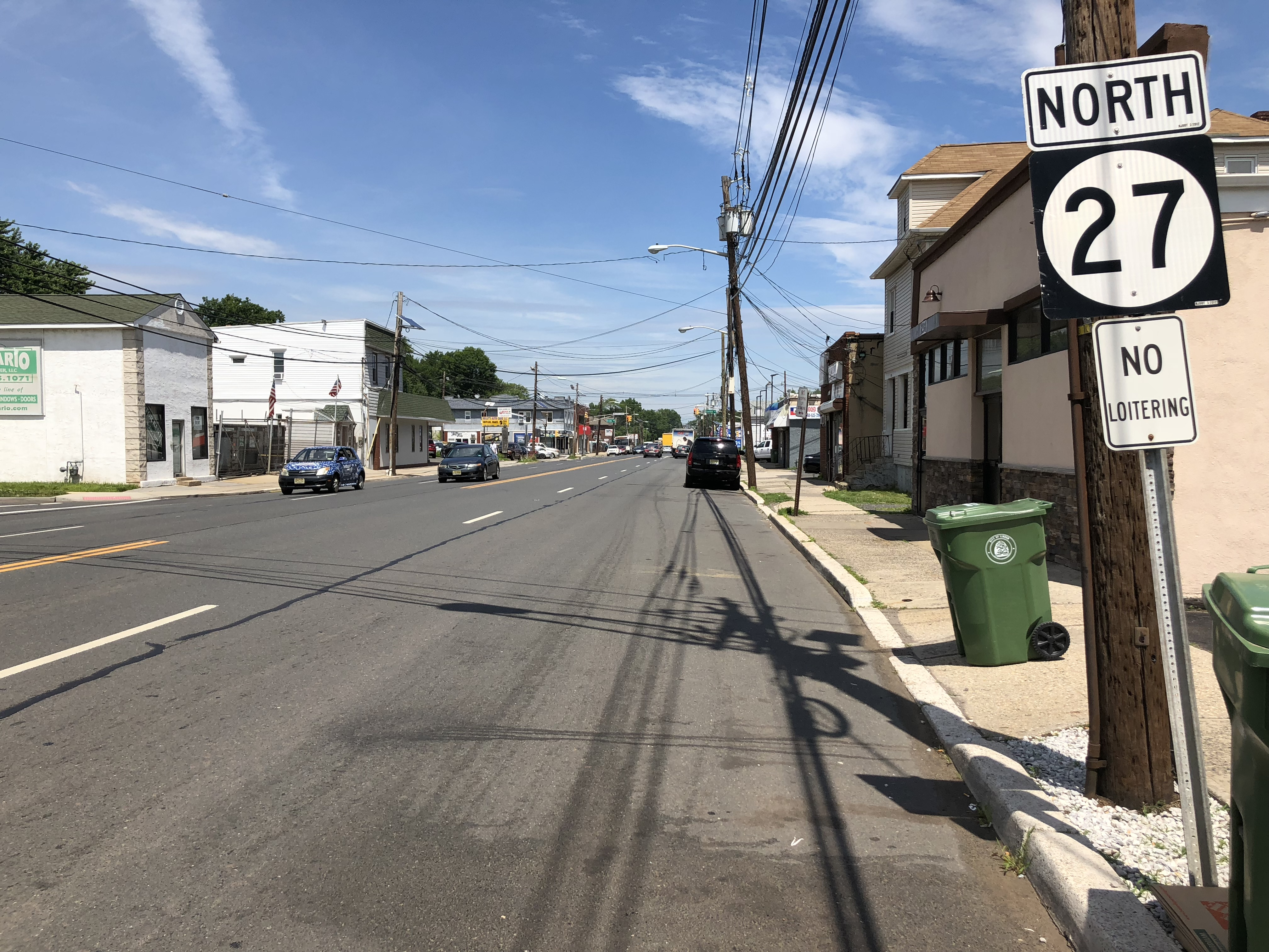 View north along New Jersey State Route 27 (Saint Georges Avenue) at Harrison Avenue along the border of Linden and Roselle in Union County, New Jersey